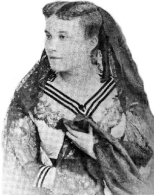 Photograph of Esther Lachmann, Russian-born French courtsan, known as La Paiva